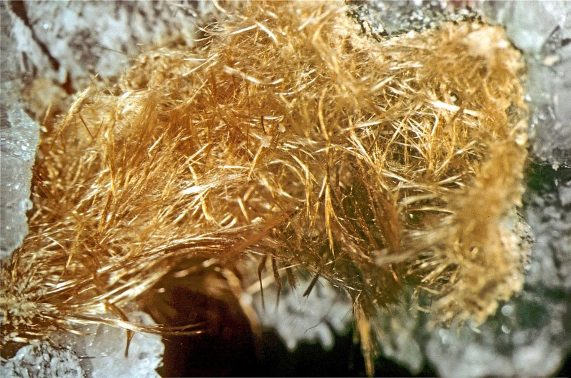 Yofortierite (FOV 14.0 x 9.3 mm) Locality: Demix-Varennes quarry, Saint-Amable sill, Varennes & St-Amable, Lajemmerais RCM, Montérégie, Québec, Canada Found June 1996. MOB coll. Unusual golden color and curly fibers.